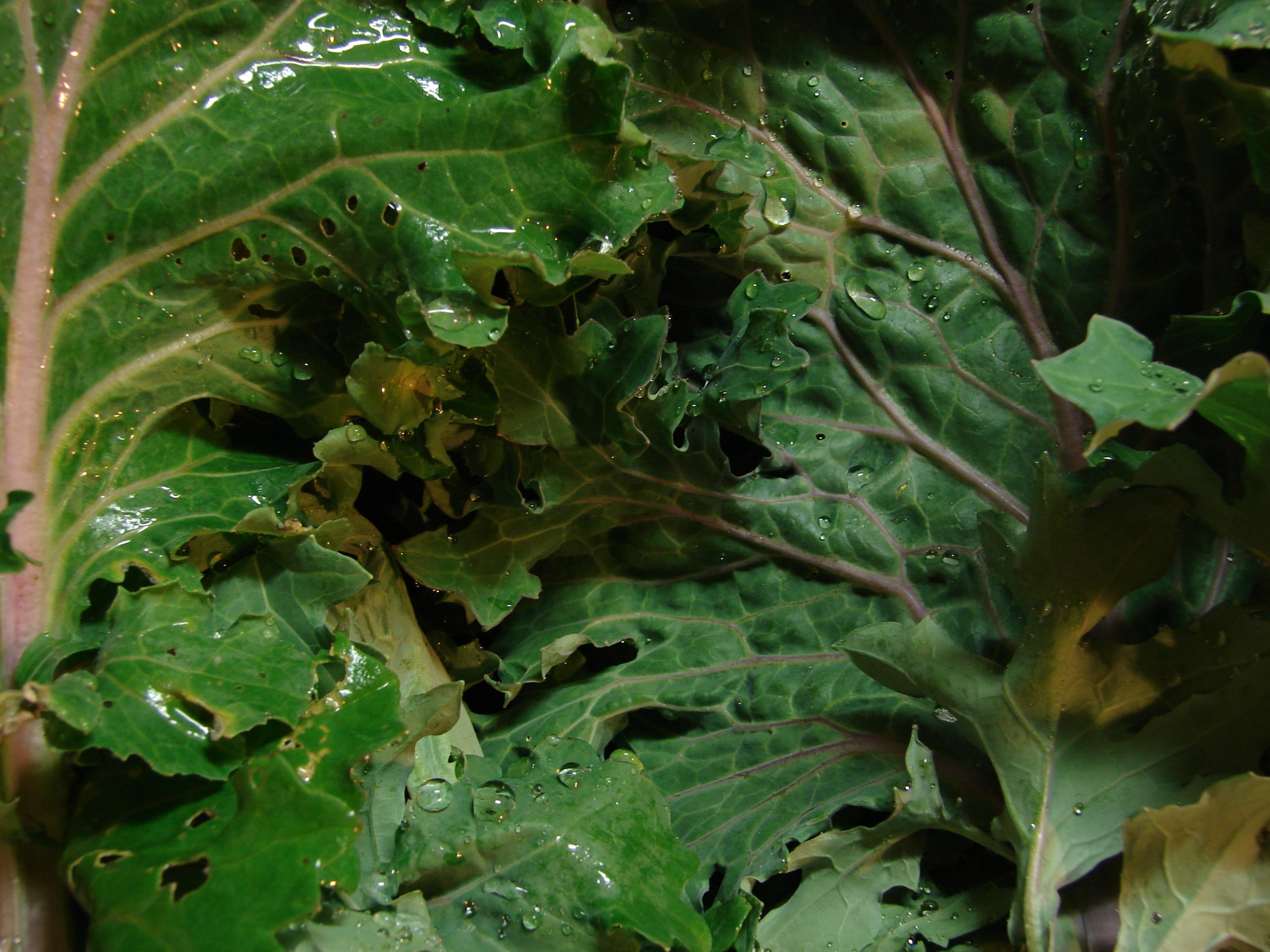 Freshly picked Siberian kale